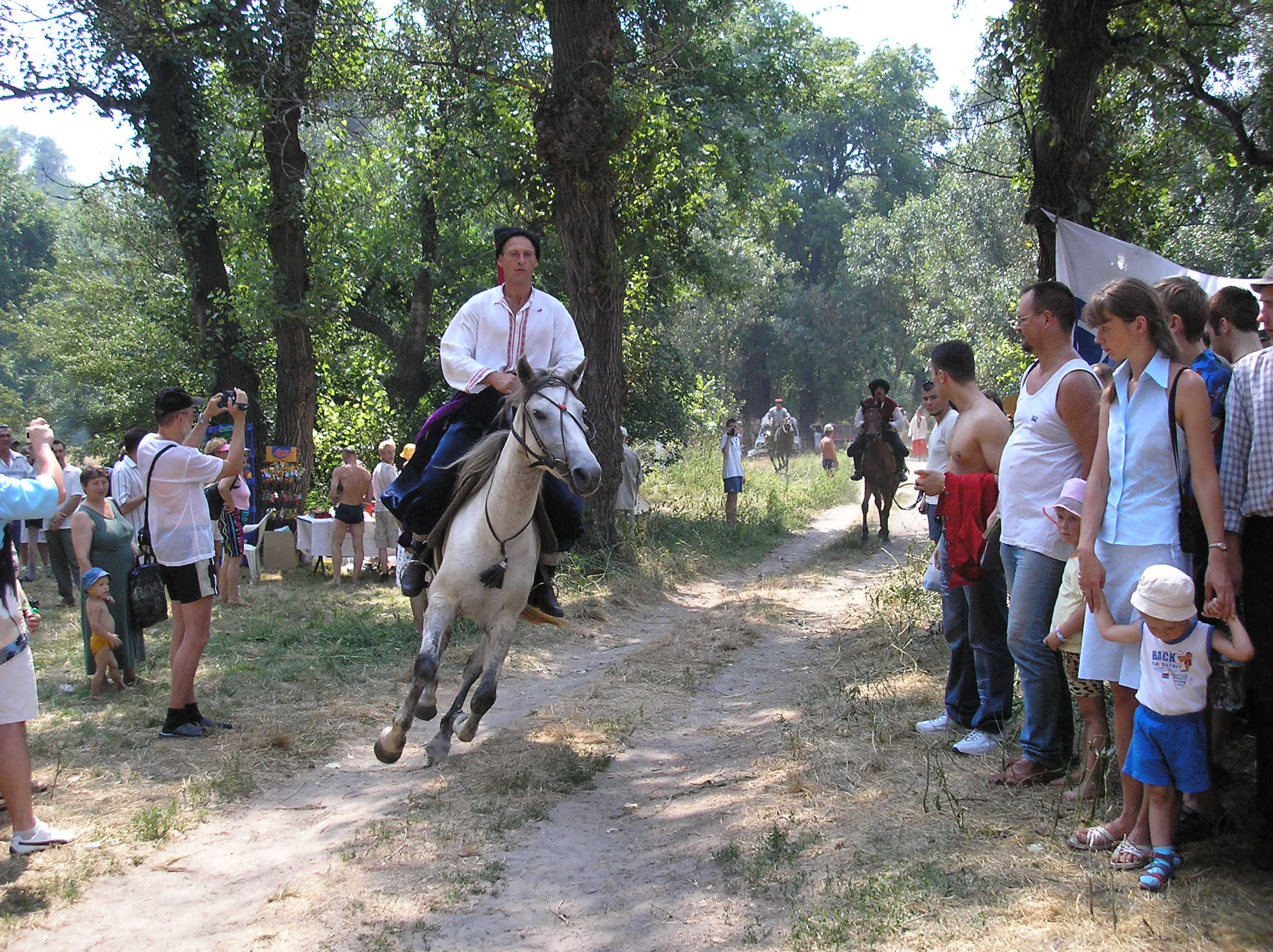 Zaporizhya. Island Khortytsya. Cossacks festival. 2005 Summer